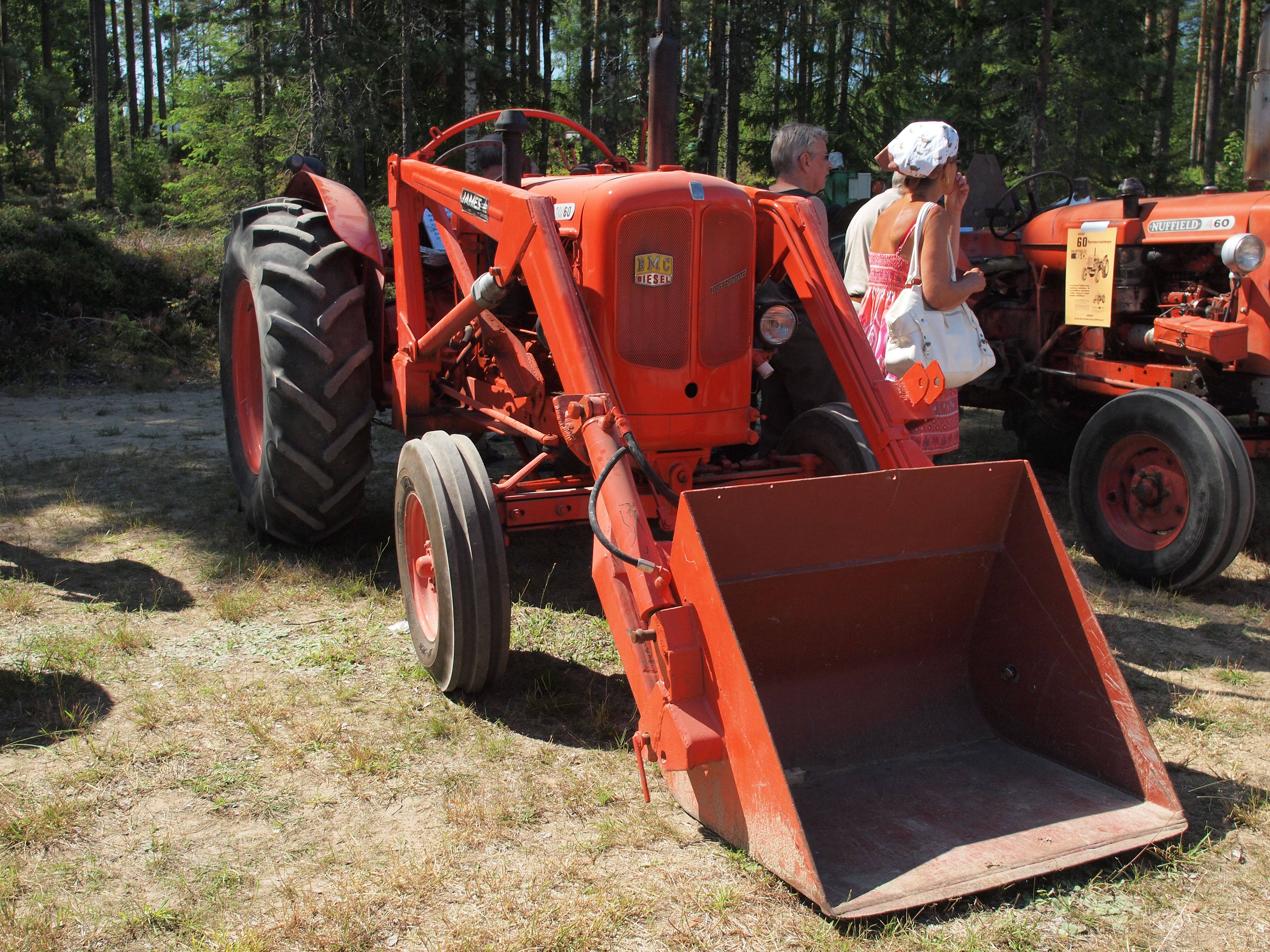 Nuffield 10/60 1967